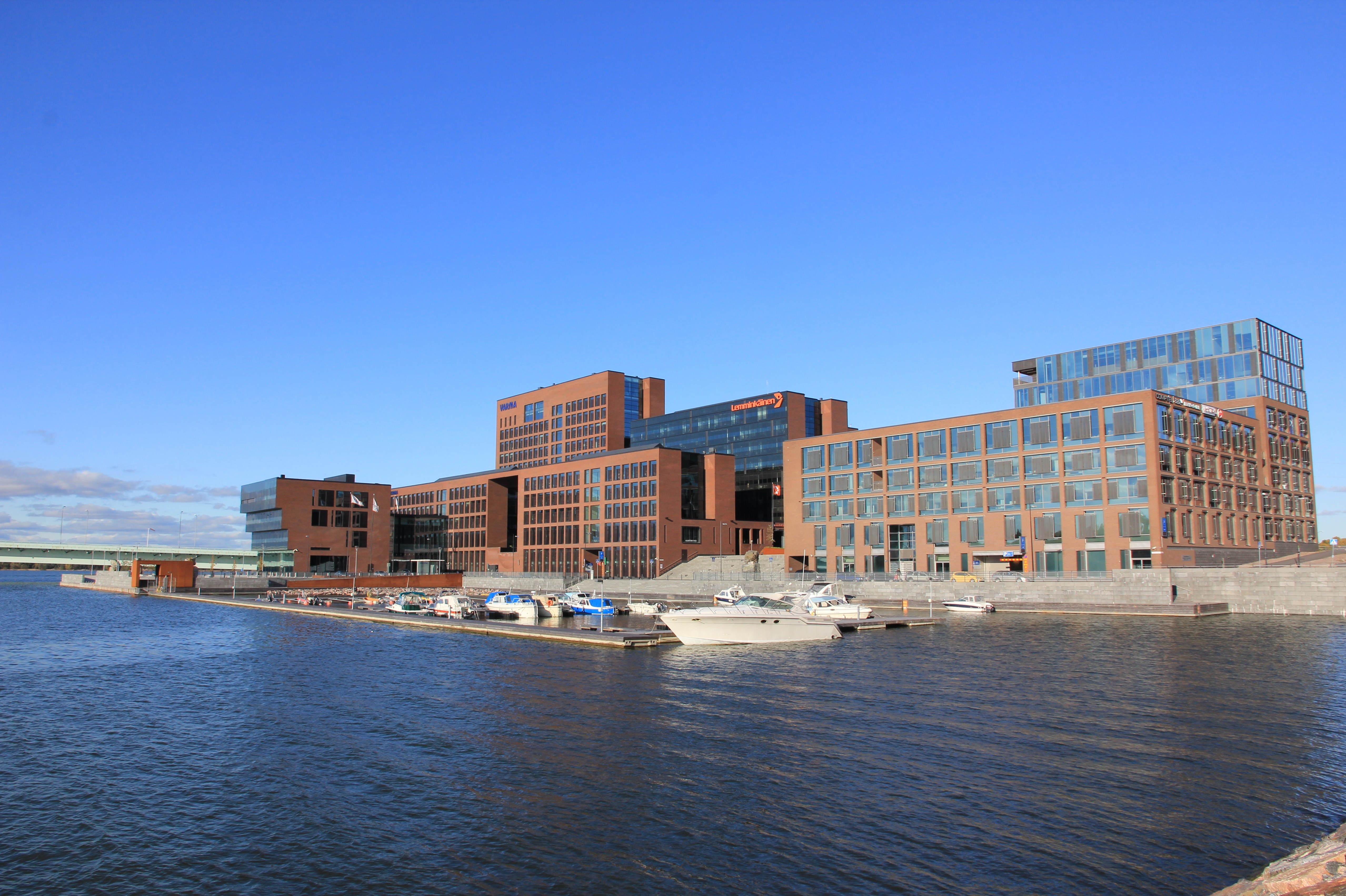 Salmisaari in Helsinki.